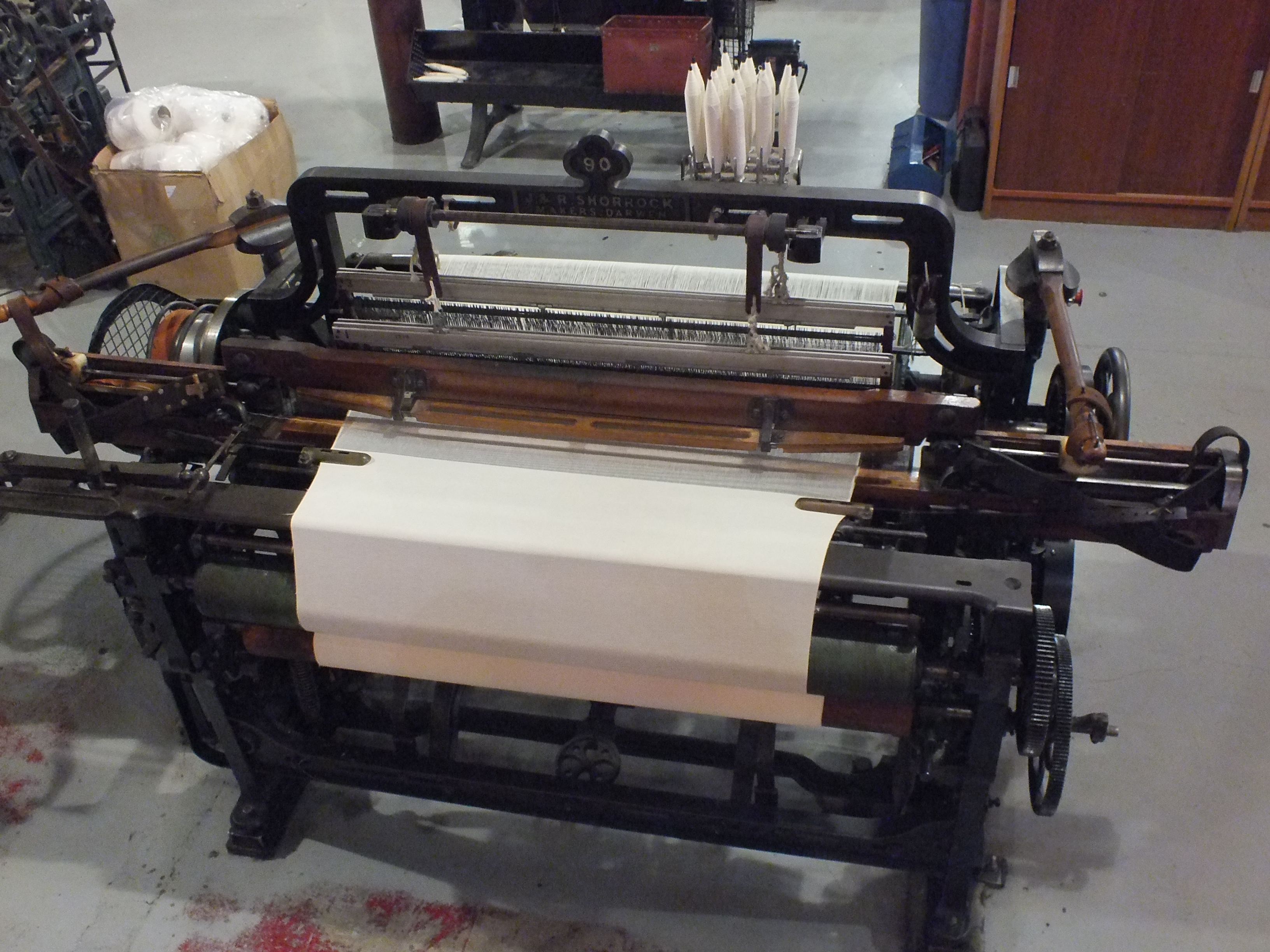 The Museum of Science and Industry (Manchester) contains a collection of textile machines that demonstrate the whole process used in a Cotton mill, and a few key eighteenth century machines. A representative Lancashire loom weaving grey cloth, a coarse 16 count suitable for the sofa manufacturing industry. The weft stop mechanism allowed upto 6 looms to be tentered by one weaver. It has been retrofitted with an electric motor, and is used daily for 2 min demonstrations (2013).